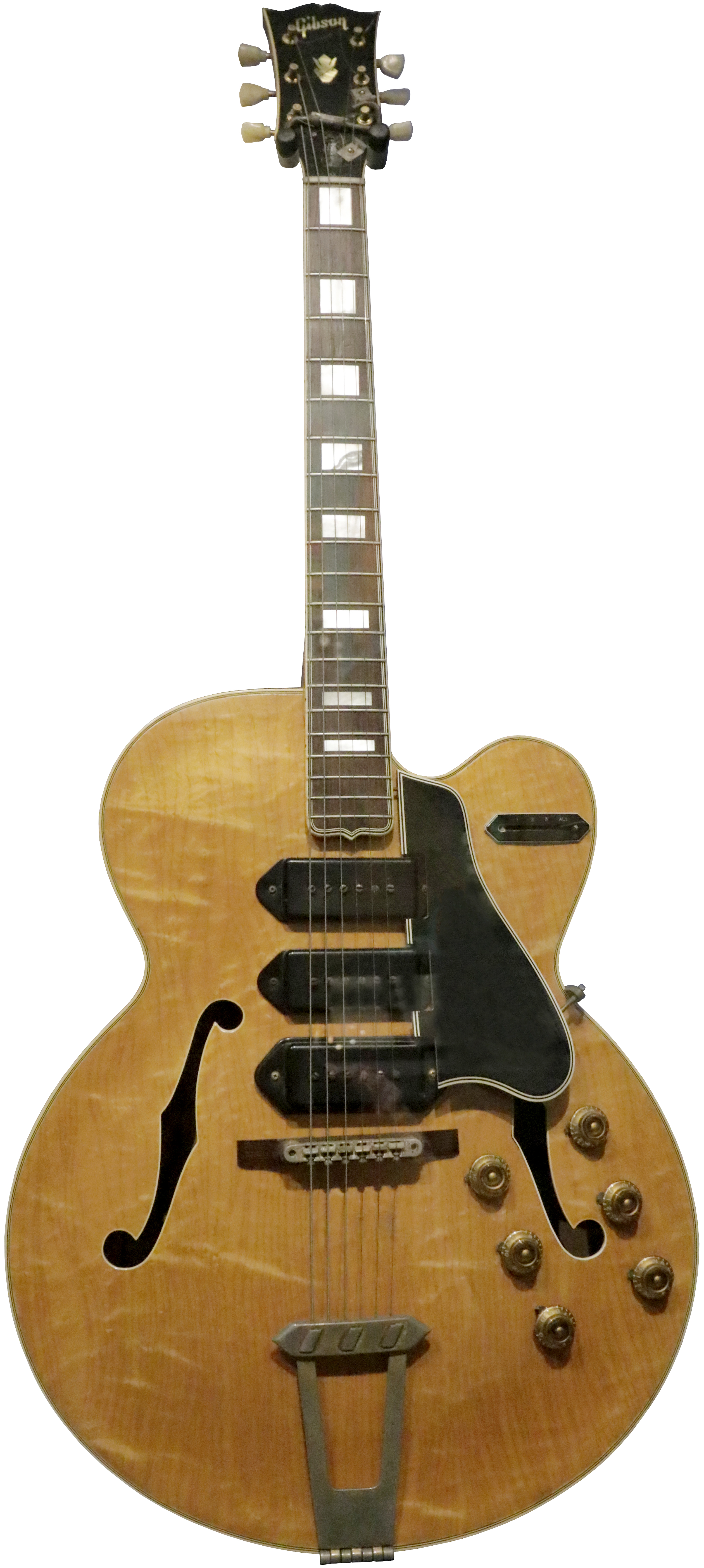 Carl Perkins' Gibson guitar (Rock and Roll Hall of Fame, Cleveland, OH).